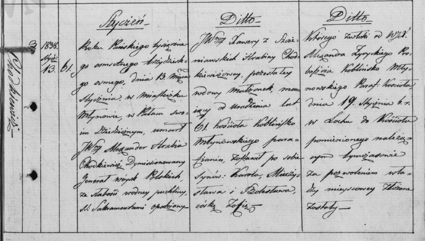 Death record of Aleksander Chodkiewicz